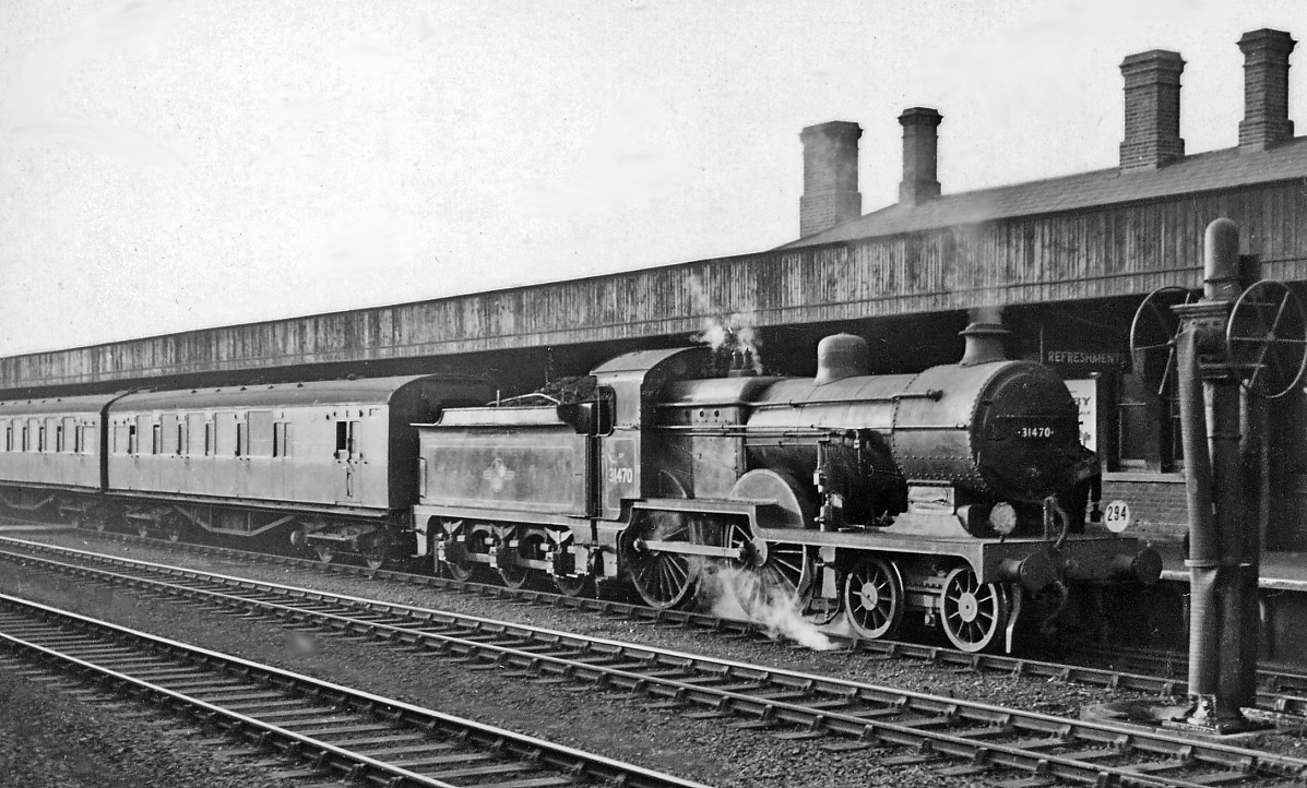 Down stopping train from Redhill at Tonbridge. View NW, towards London: ex-SE&CR London/Redhill - Hastings/Ashford etc. main lines. The train is headed by SR Maunsell class D1 4-4-0 No. 31470 (built 8/1906 as SE&C Wainwright class D, rebuilt 11/26 as class D1, withdrawn 6/59).